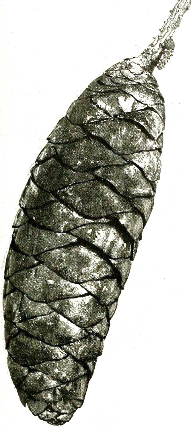 Picea neoveitchii cone